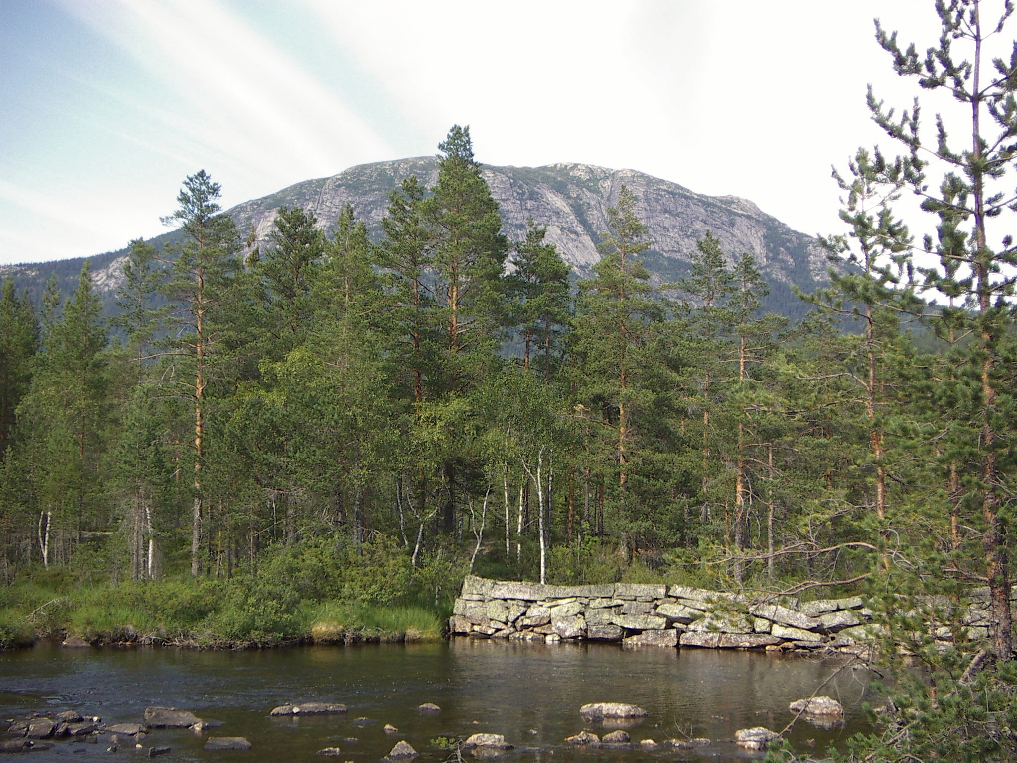 The amous hilltop Bukollen in Norway Bukollen fotorafert fra Vidalen